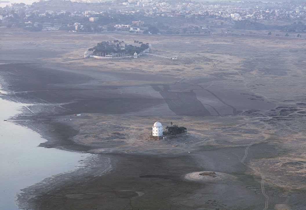 Udaipur Observatory in Fateh Sagar Lake which is in a dry condition. The photo was taken in Dec. 2002 from Neemuch Mata Temple.